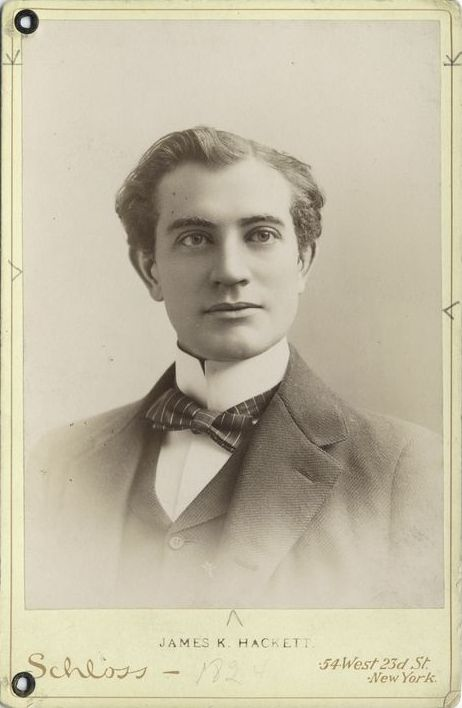 James Keteltas Hackett (1869–1926), American actor and manager